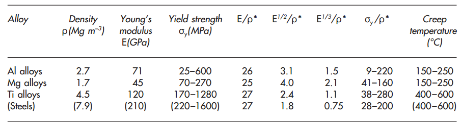 Mechanical properties of structural light alloys